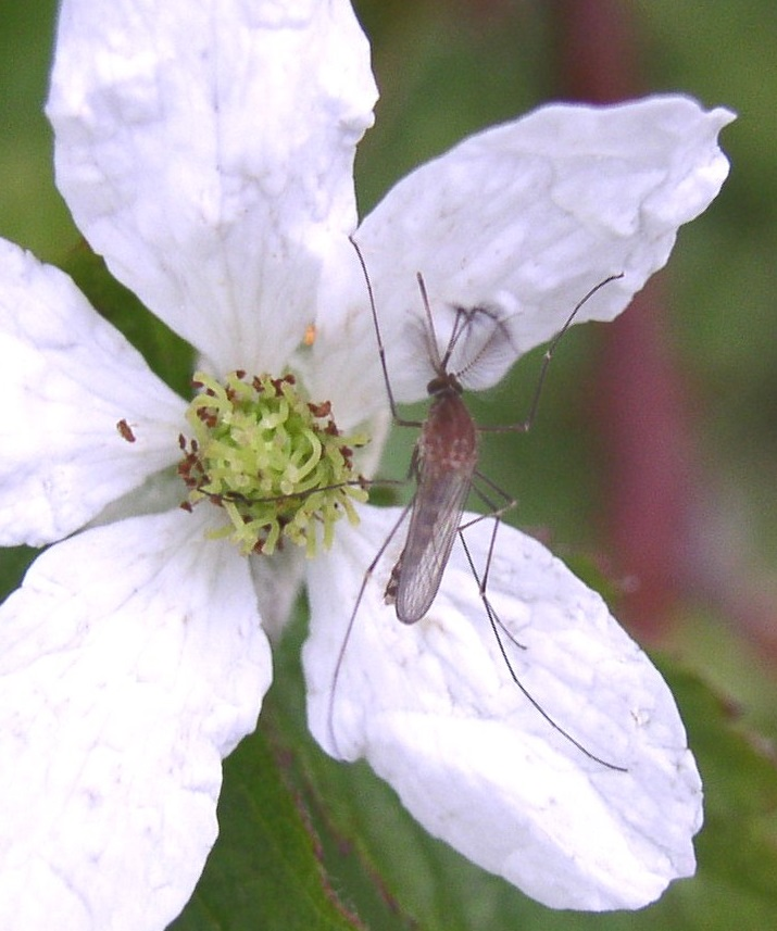 Mosquito, Culex salinarius male. Peace Valley Nature Center, Bucks County, Pennsylvania, USA.